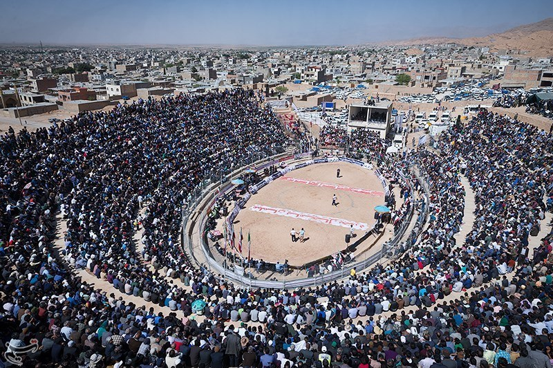 Ba-chukhe wrestling (traditional wrestling in Northern Khorasan) at Zeinal-khan pitch, Esfarayen, Iran